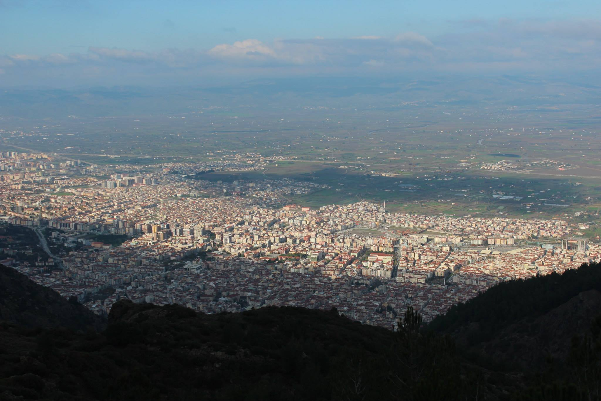 Yunusemre view view from Mount Sipylus.